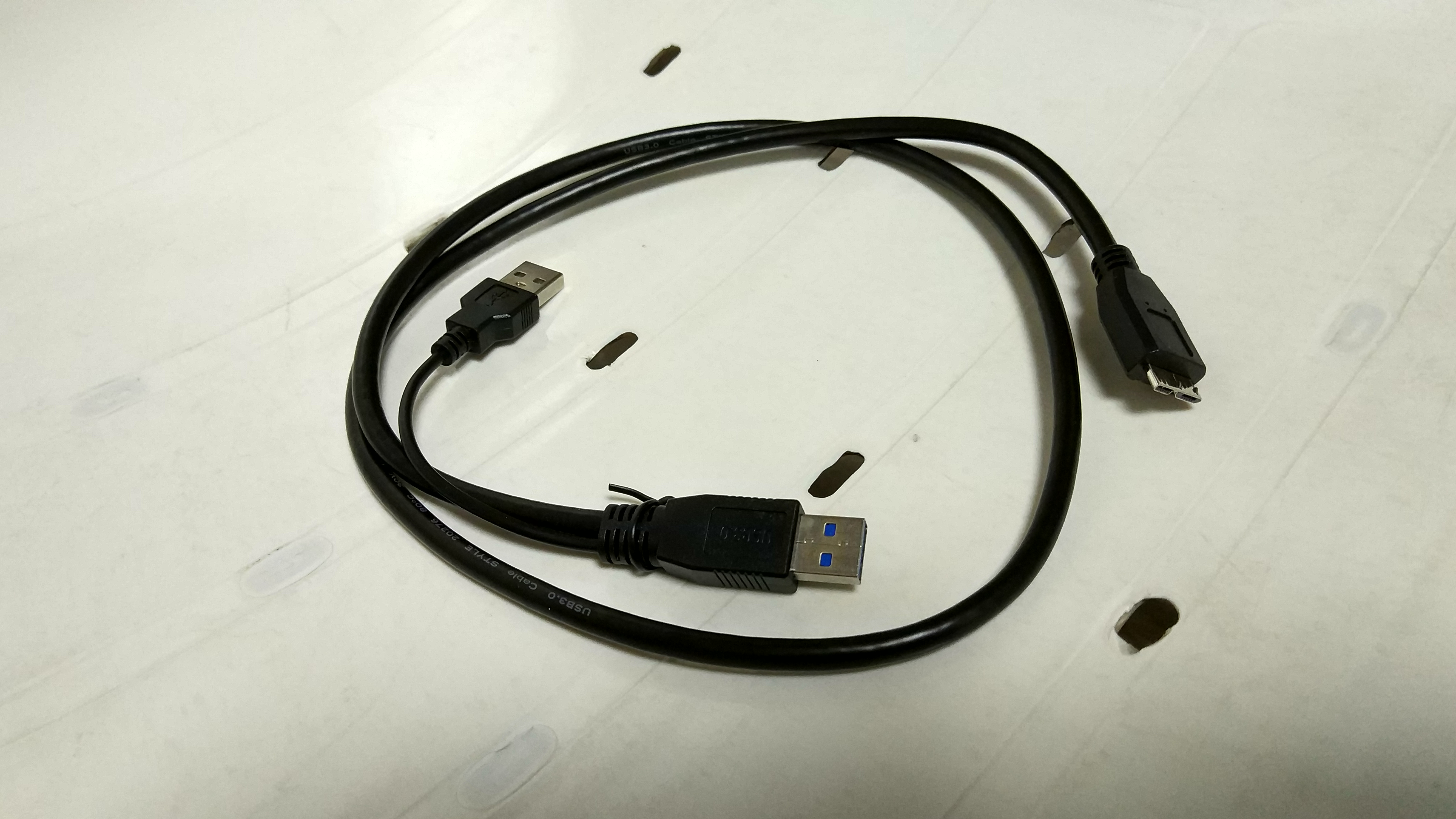 This is a USB 3.0 Y-cable for Portable storage device, and backwards compatible with USB 2.0 and supports OTG.